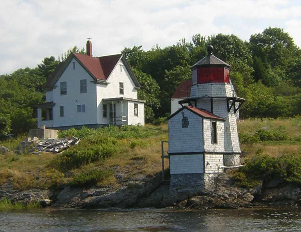 Squirrel Point Light, Georgetown, Maine, USA, with keeper's quarters